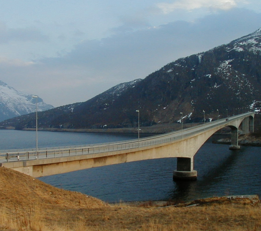 Mjøsund Bridge is a road bridge in Troms county (fylke), Norway.